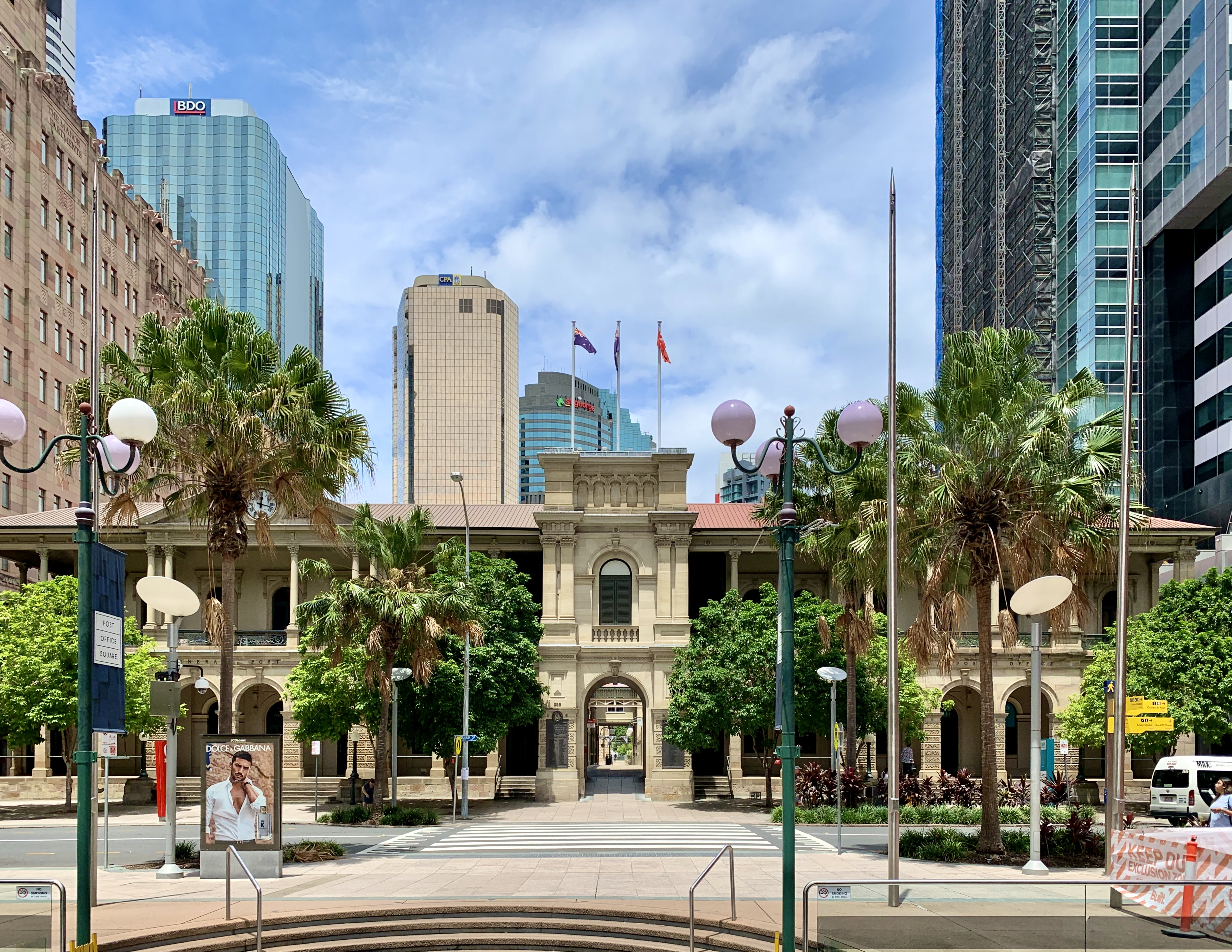 General Post Office seen from Post Office Square, Brisbane, February 2020